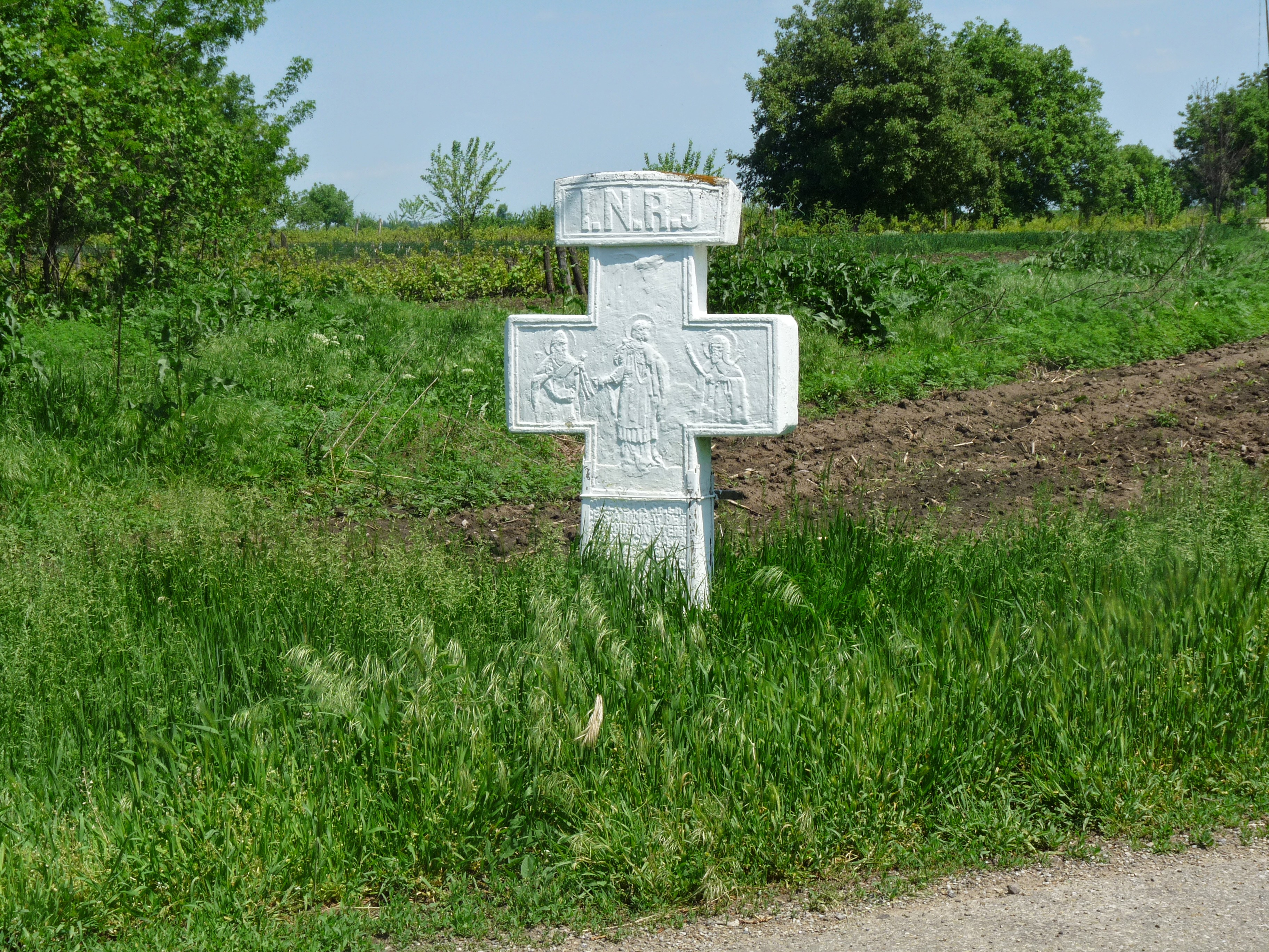 Stone cross in Glodeanu-Siliștea, Buzău County, RomaniaRomână: Cruce de piatră în Glodeanu-Siliștea, județul Buzău, România